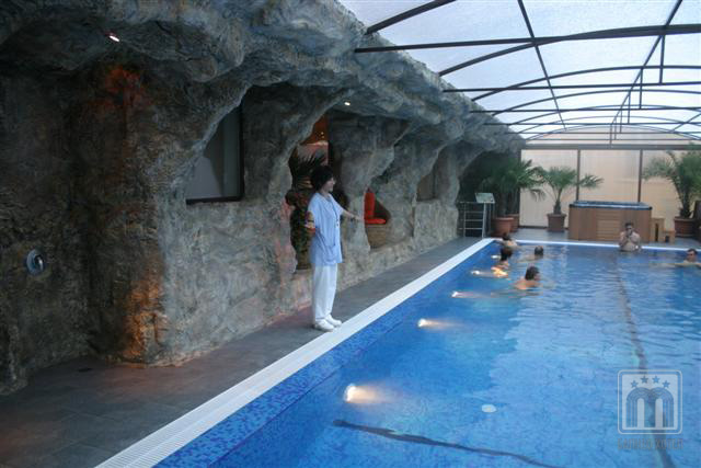 The pool of SPA hotel Markoni Pavel banya, Bulgaria